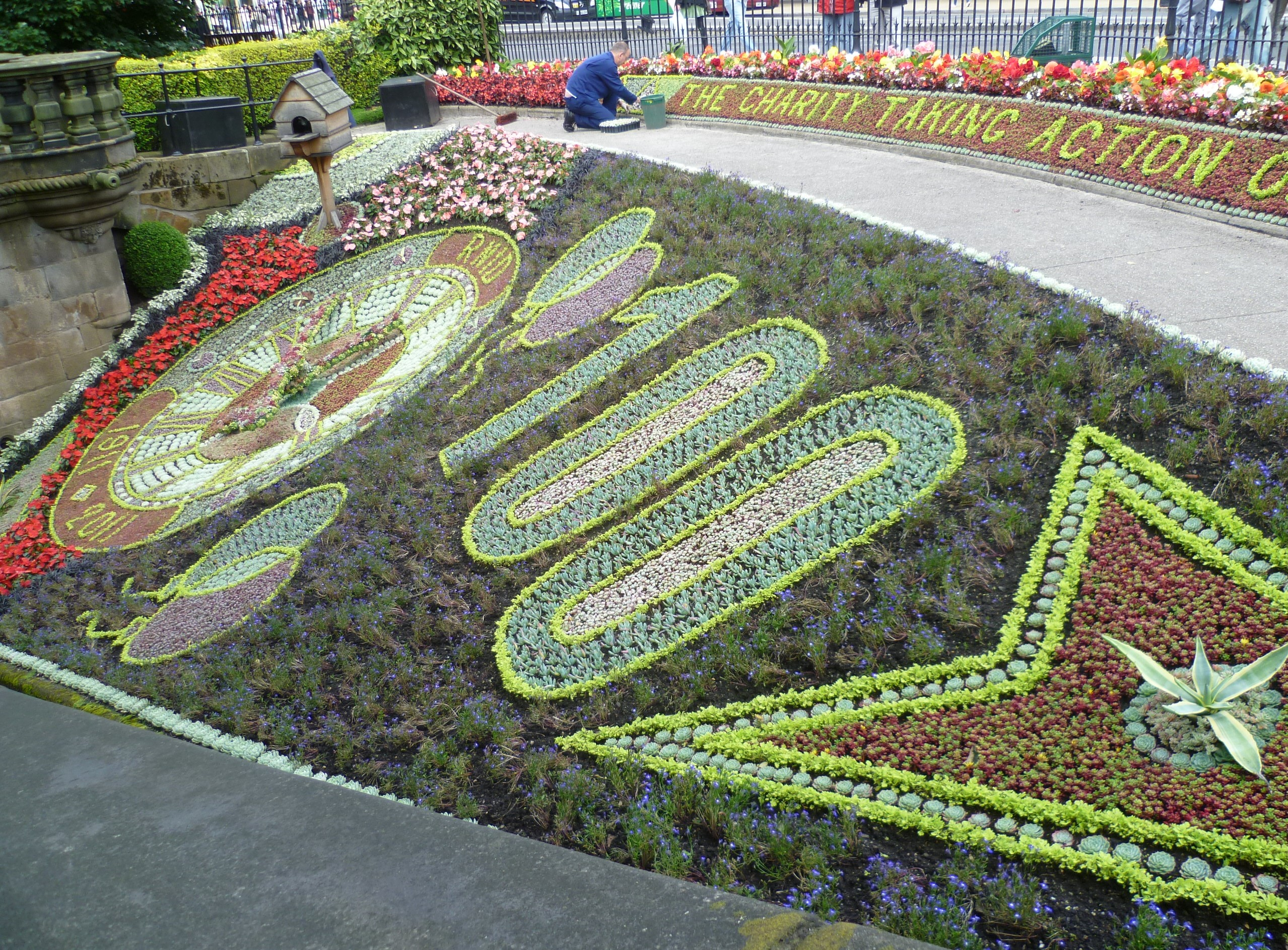 The display celebrates the centenary of the Royal National Institute for Deaf People (RNID). The floral clock was first planted in 1903 by the then Parks Superintendent, Mr McHattie. It has a circumference of 36ft and is almost 12ft wide. The hands measure almost 11ft and 5ft in length. When bearing plants they weigh approx 80lbs and 50lbs each. The original clock motor, from a turret clock in the Fife coastal village of Elie, is still in place in the plinth of the statue of Allan Ramsay, but has been superseded by a more modern motor that is wound daily. The planting of the clock takes three men up to three weeks, using approximately 24,000 bedding plants. One man then takes responsiblity for its upkeep for the rest of the season. (Information from Edinburgh Council Parks Dept, 2003)